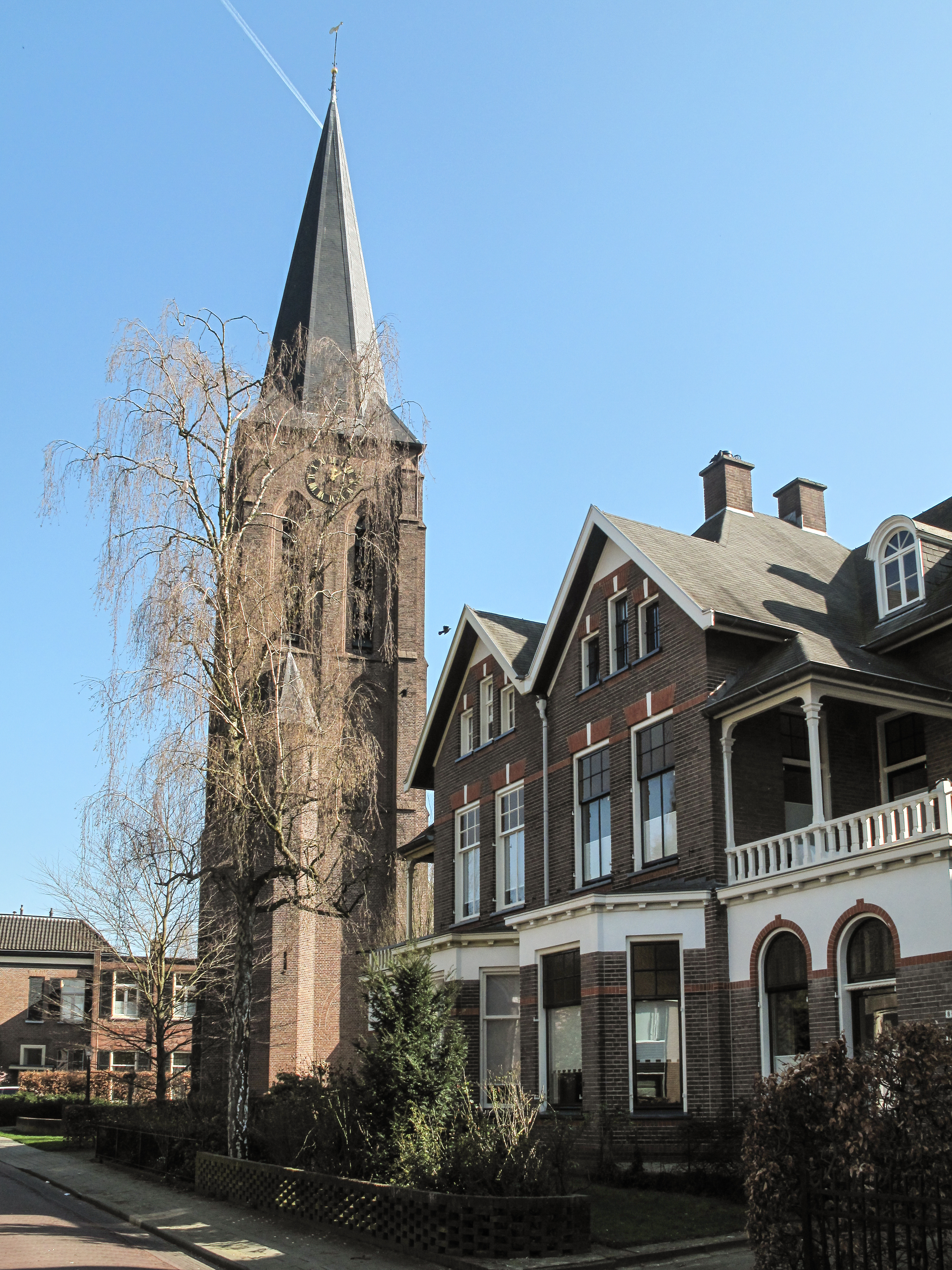 Dieren, tower: de Dierense toren